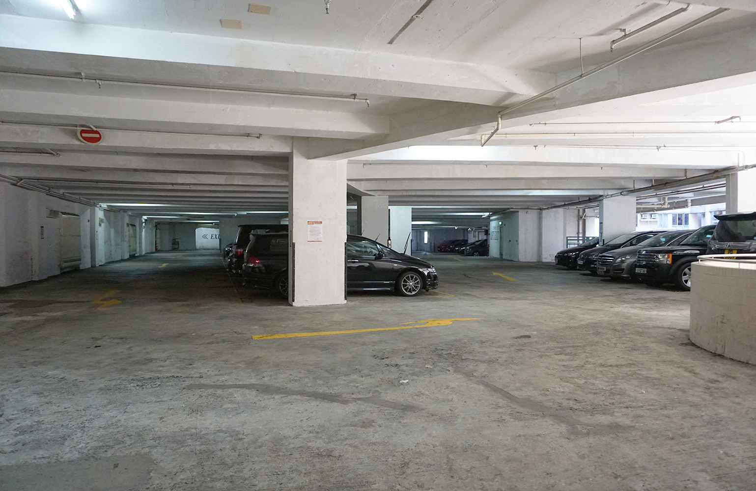 Bauhinia Garden in Tseung Kwan O, Hong Kong.